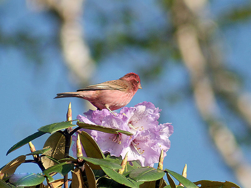 Pink-browed Rosefinch Carpodacus rodochroa in Kullu District of Himachal Pradesh, India.